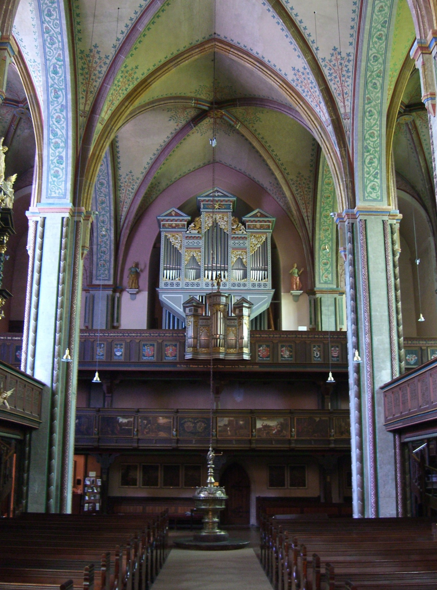 Evangelical-lutheran church "Saint Stephen" (St. Stephani) in Helmstedt: organ.